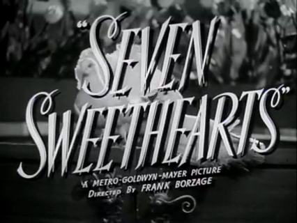 Seven Sweethearts 1942 Frank Borzage